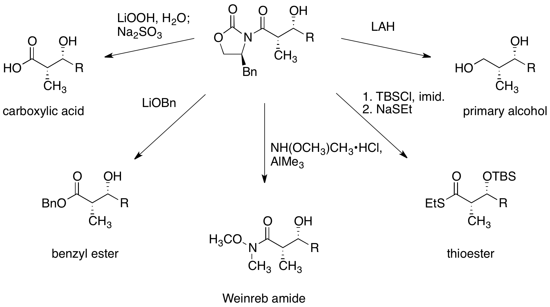 Chemdraw